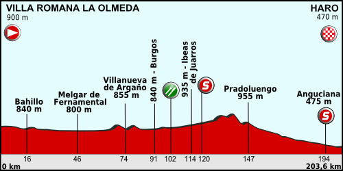 Profile of the 16th stage: Vuelta a España 2011